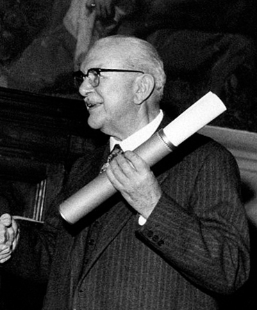 At museo nazionale della scienza e della tecnologia Leonardo da Vinci, on behalf of the president of American Institute of Electrical Engineers L.F. Hickernell, Italian entrepreneur Alberto Pirelli giving the honorary member certificate to Italian engineer and inventor Luigi Emanueli, considered the father of modern electrical engineering. Milan, 1950s.